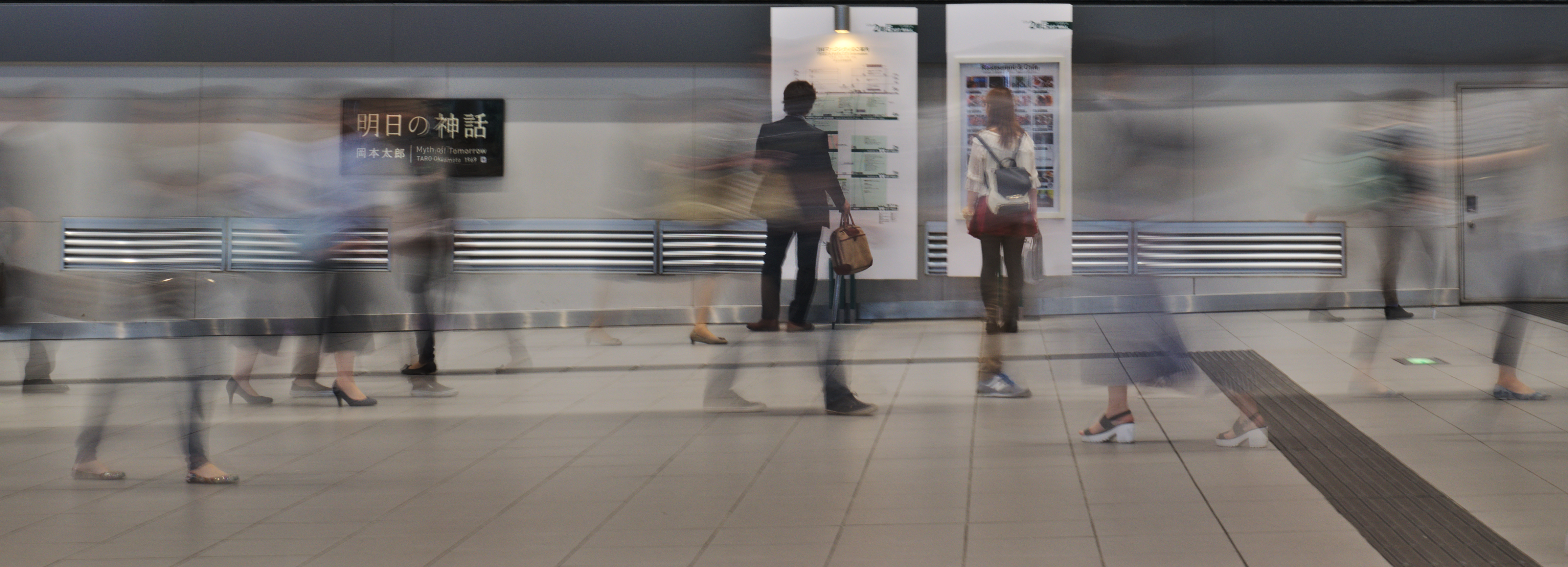 Long exposure of people walking into Shibuya Station (Tokyo), just below the mural Asu no Shinwa (The Myth of Tomorrow by Tarō Okamoto).